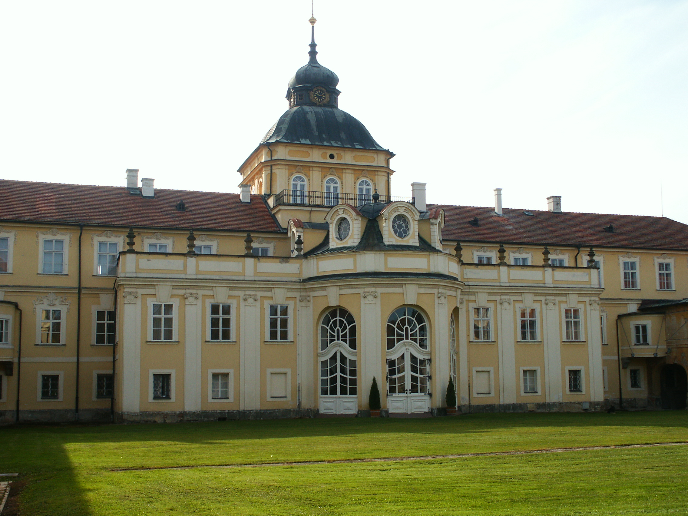 Horovice - New Chateau